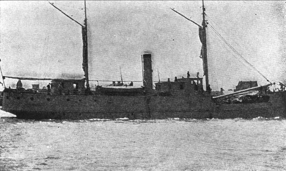 The United States Lighthouse Service lighthouse tender USHLT Mangrove in United States Navy service as the supply ship USS Mangrove during the Spanish-American War in 1898.